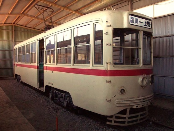 Former Toei 7000 series tramcar number 7024 preserved in Fuji, Shizuoka, Japan